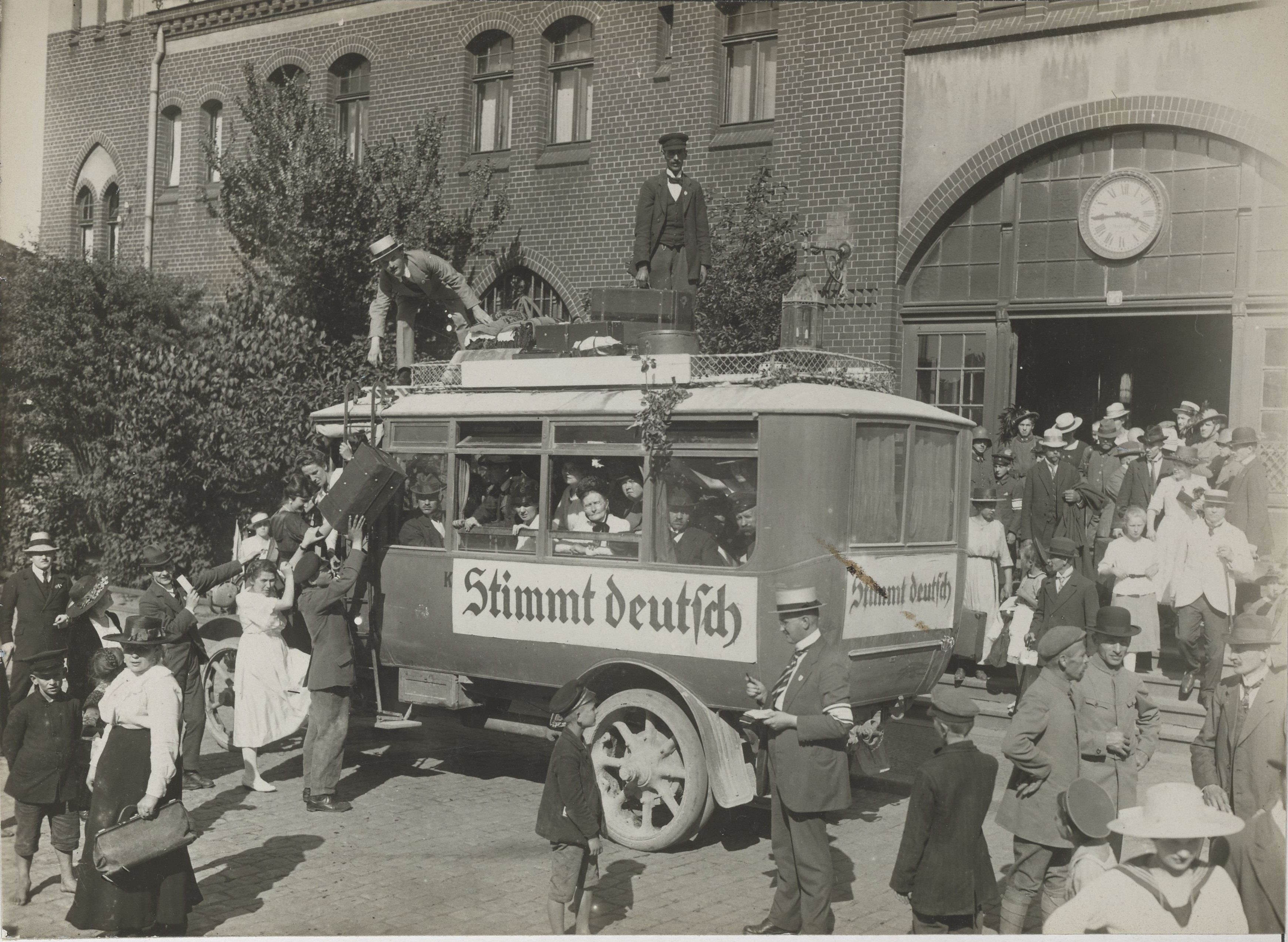 Enemy Activities - German Revolution - Scene at the Marienwerder railway station on the day of the plebiscite to determine the future status of East and West Prussia, which resulted in an overwhelming majority of German votes